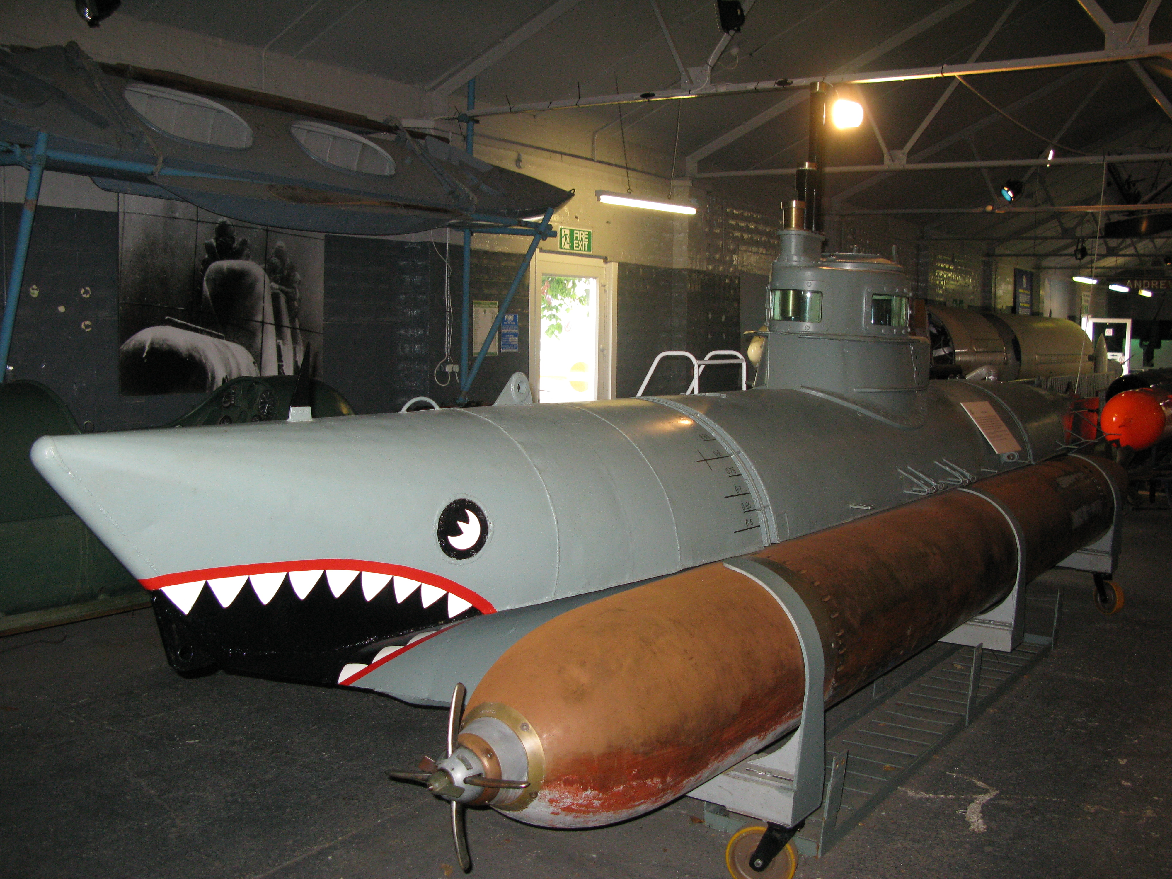 Photo of biber Submarine No.105 with a torpedeo mounted at the Royal Navy Submarine Museum